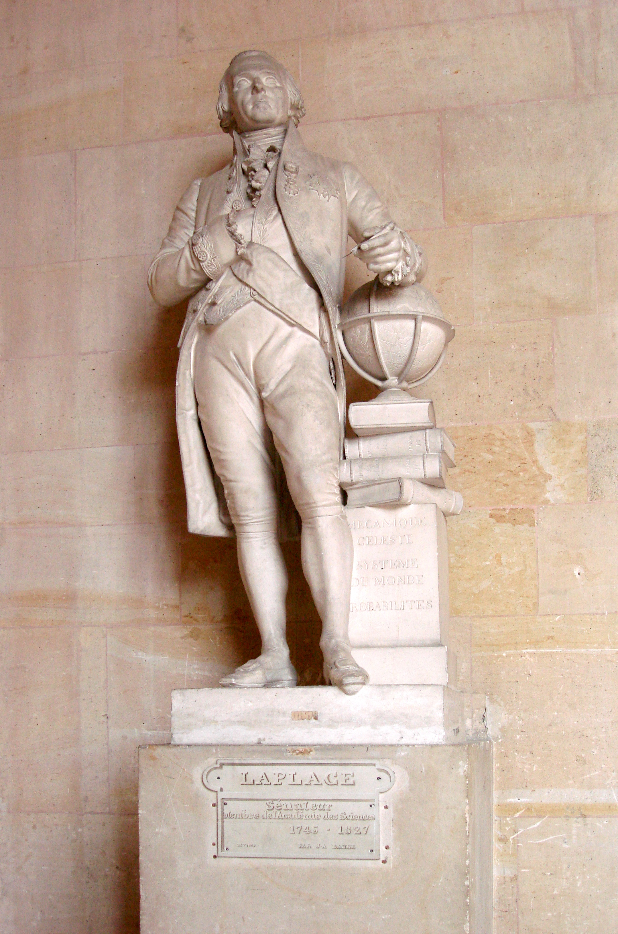 Statue of Pierre Simon Marquis de Laplace in the castle of Versailles in France